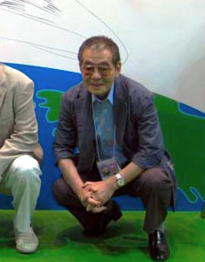 Tetsuo Saitō, Minister of the Environment, posed for photos with Shinji Mizushima, Chairman of the International Comic Artist Conference Execution Committee, Machiko Satonaka, Representative Director of the Manga Japan, Tetsuya Chiba, Executive Director of Japan Cartoonists Association, and Monkey Punch, President of the Digital Manga Association, at the International Comic Artist Conference Fiesta in Kyōto City, Kyōto Prefecture on September 6, 2009.